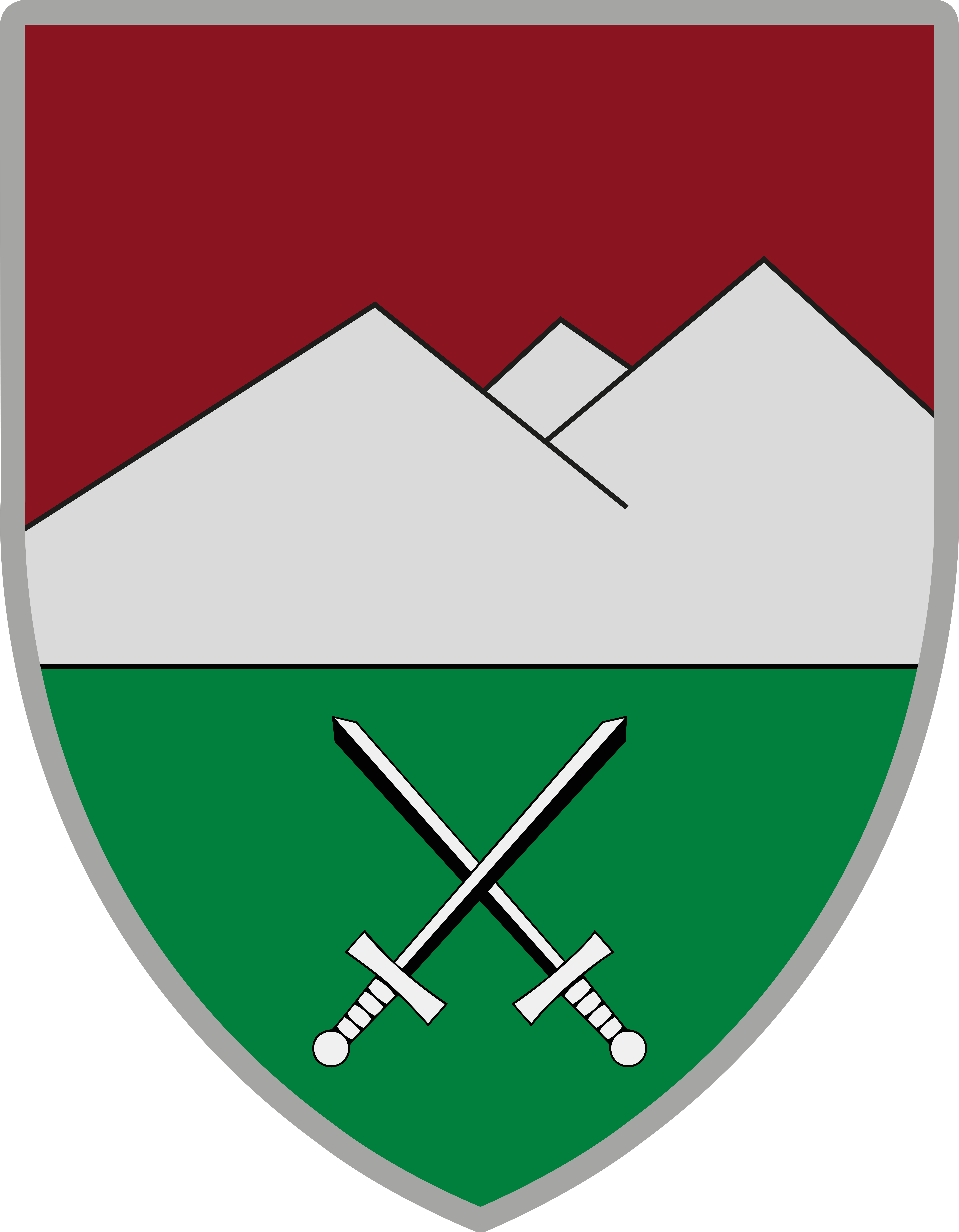 Internal coat of arms of the Bundeswehr (Armed Forces of the Federal Republic of Germany). → Remarks on naming and categorization scheme